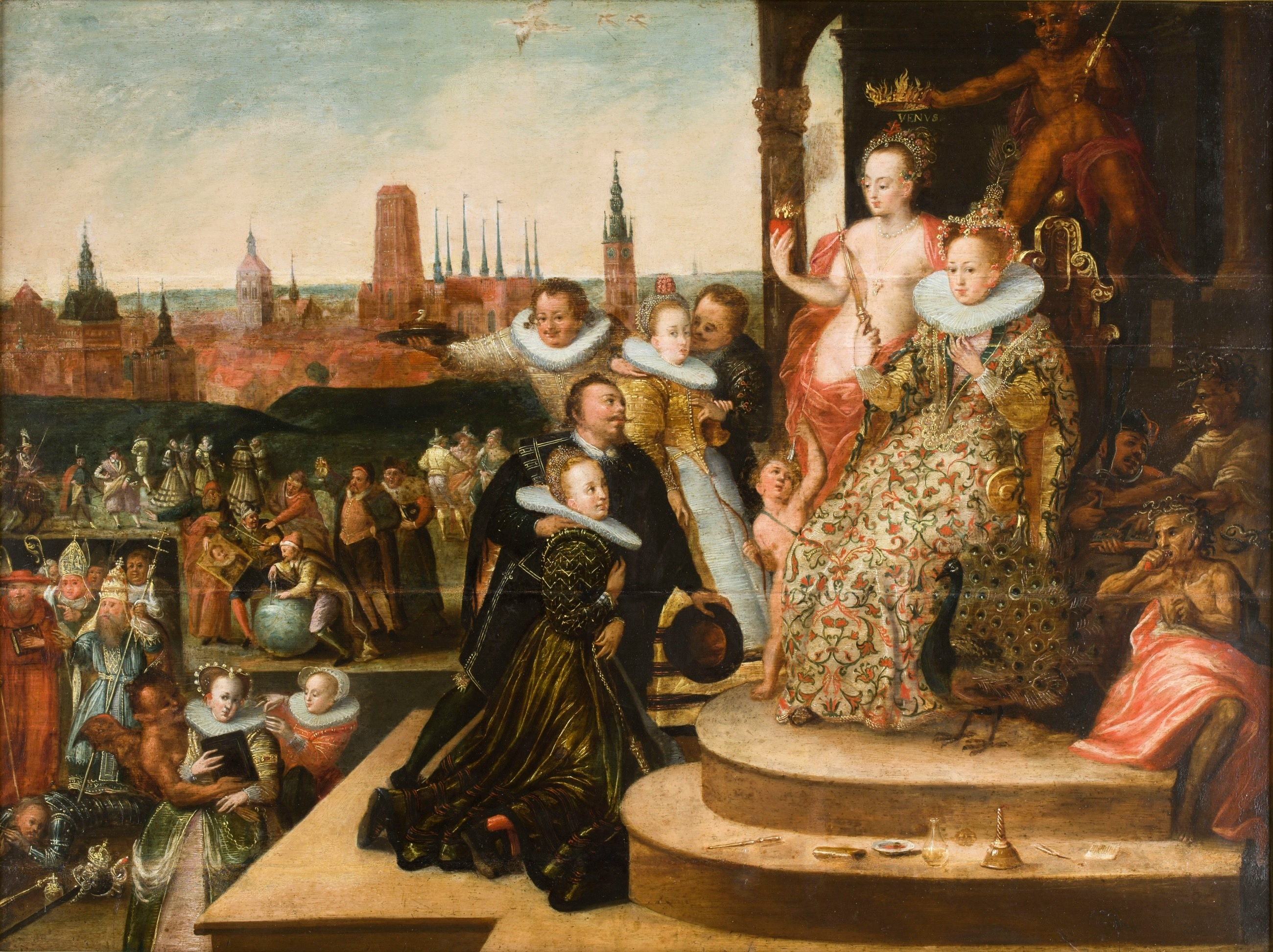 Allegory of Pride